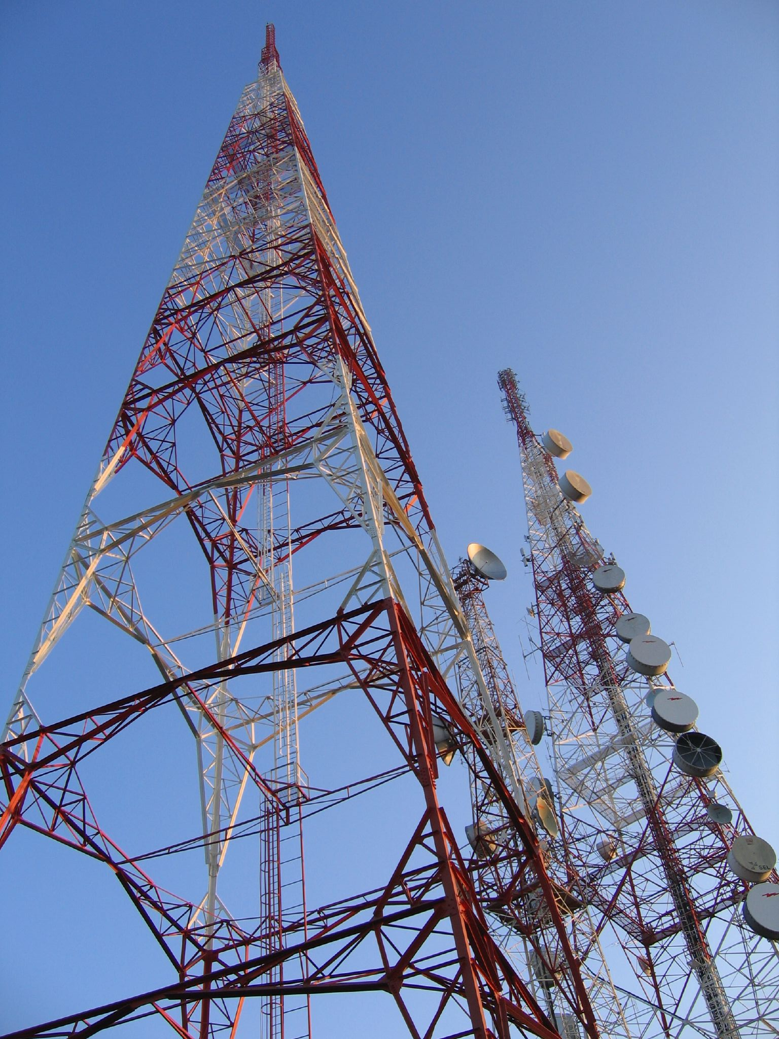 Telecommunication towers on top of Bukit Besar, Kuala Terengganu, Malaysia.